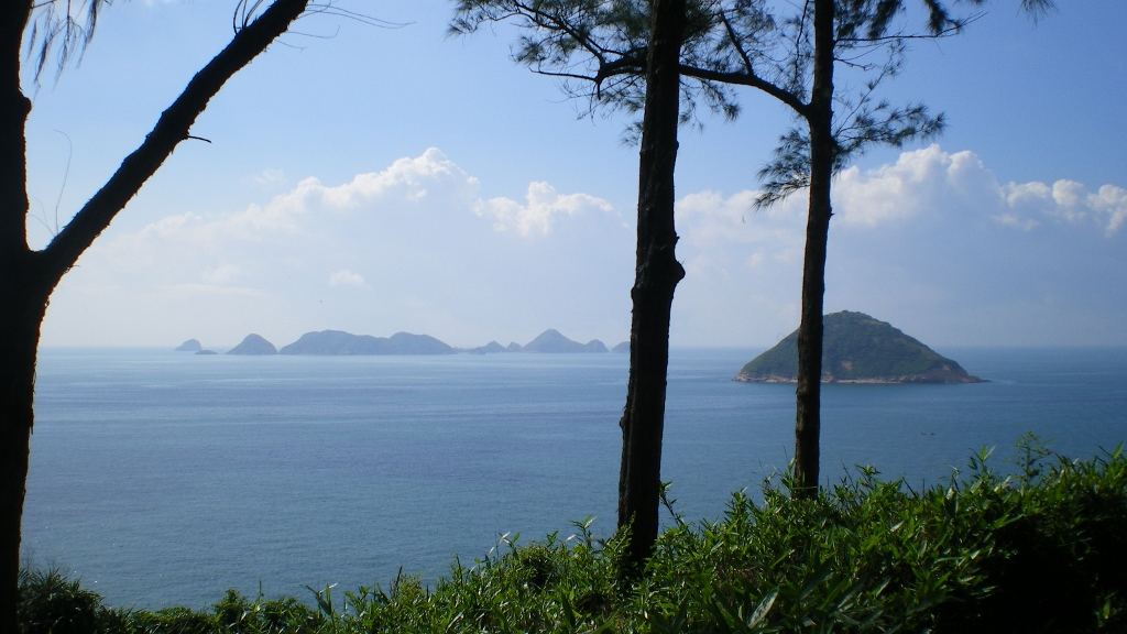 Kwo Chau Islands (The Ninepin Group)